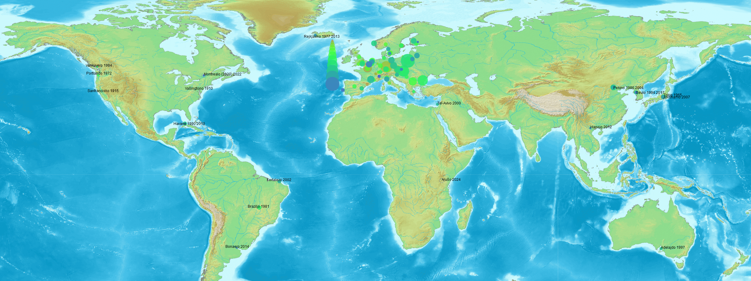 World Congress of Esperanto in the world from 1905 to 2017. Circle size represents attender number, colour represents congress year. See also World Congress of Esperanto in Europe 1905-2016